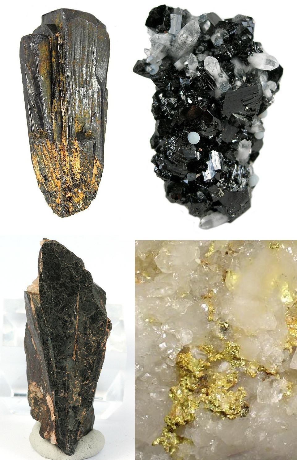 Collage of four files which are conflict minerals.